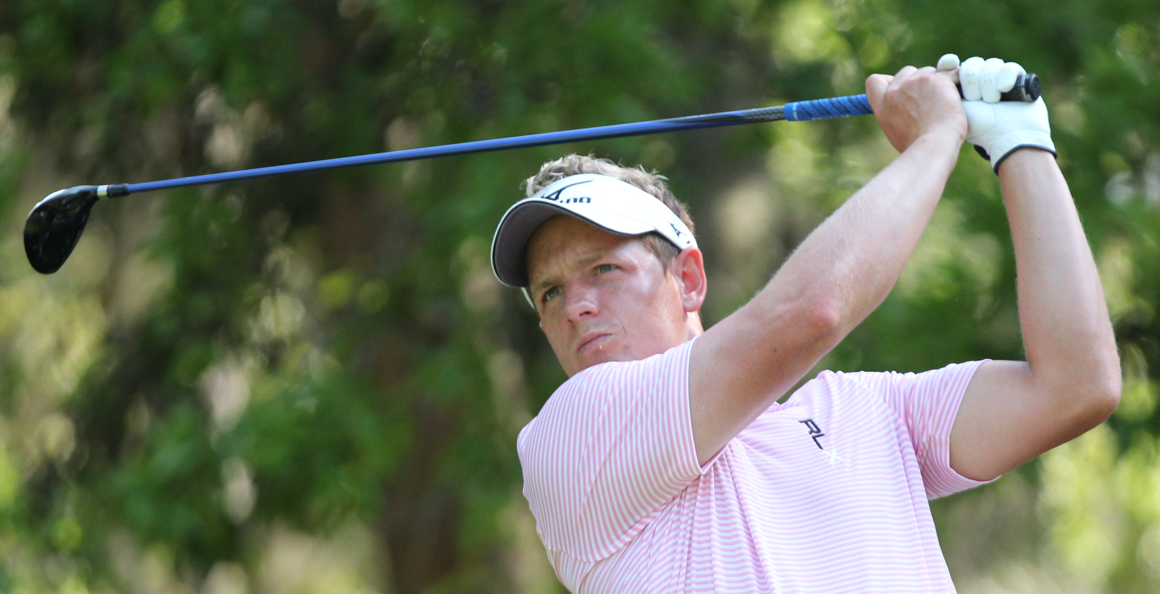 Luke Donald during The Heritage Pro-Am in Hilton Head, SC